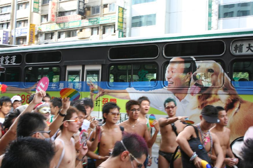 Chin Shih-chieh and WATERBOY on Taiwan Pride 2005 Actor Chin Shih-chieh's picture was on the bus advertisement. 2005-10-01 15:04:52 Zhongxiao East Road, Taipei city, Taiwan Photo by AT